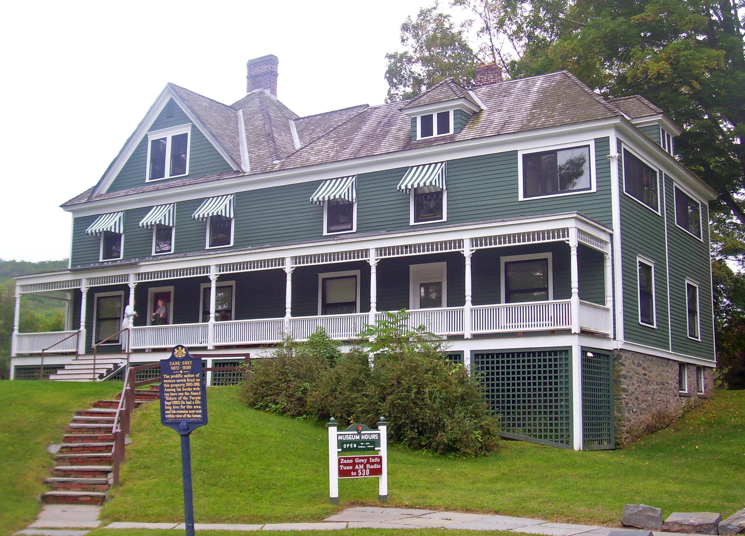 Home of writer Zane Grey from 1905–1918, in Lackawaxen, PA, USA. Now a museum dedicated to his life and work.